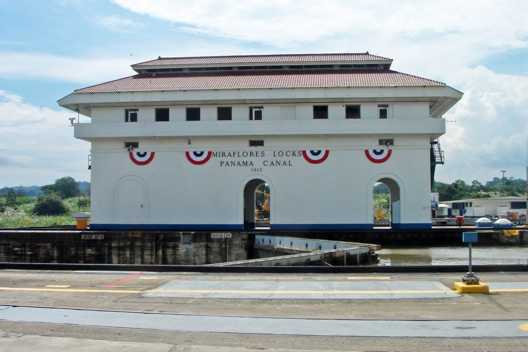 Miraflores Locks, Panama Canal